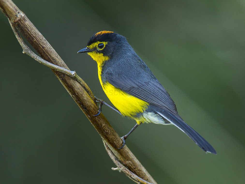 Spectacled Redstart - South Ecuador_S4E2317